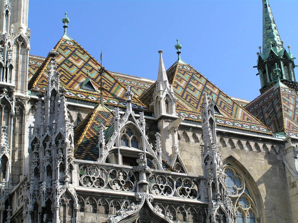 Photo: Bengt Olof Åradsson